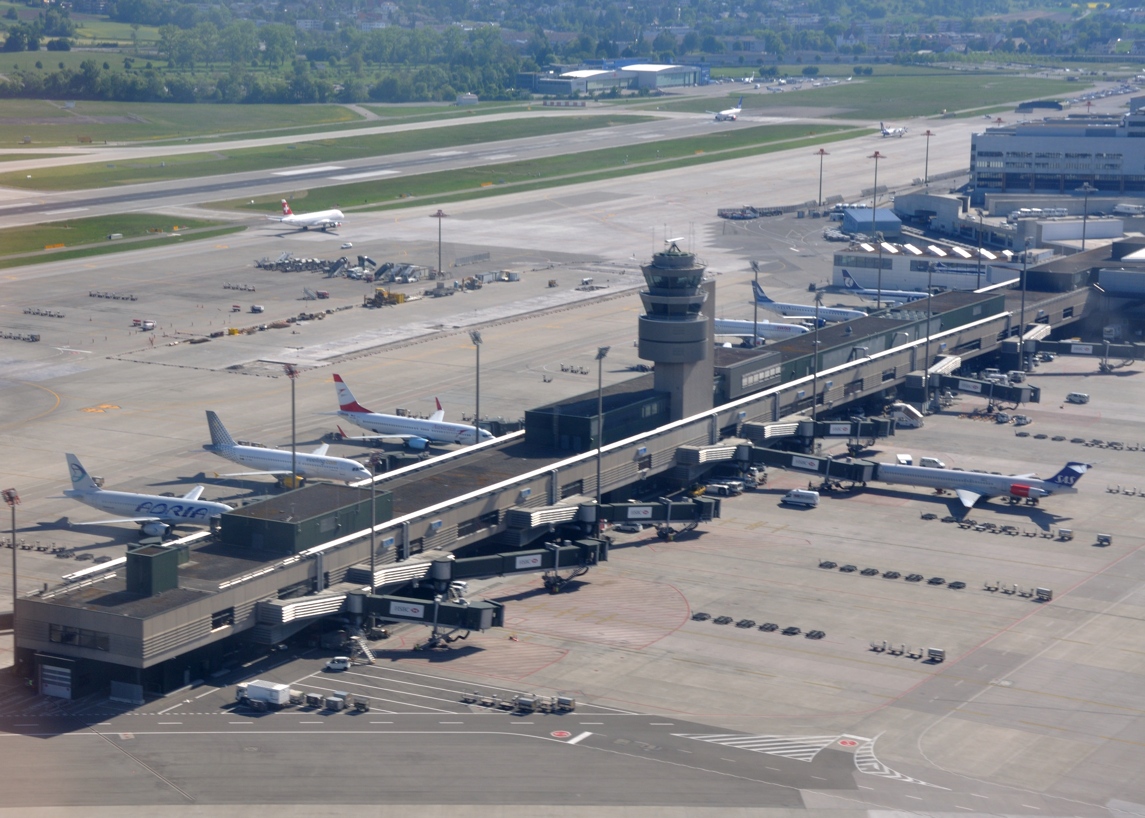 Switzerland, Canton of Zürich, Zurich International Airport while climbing out from runway 16